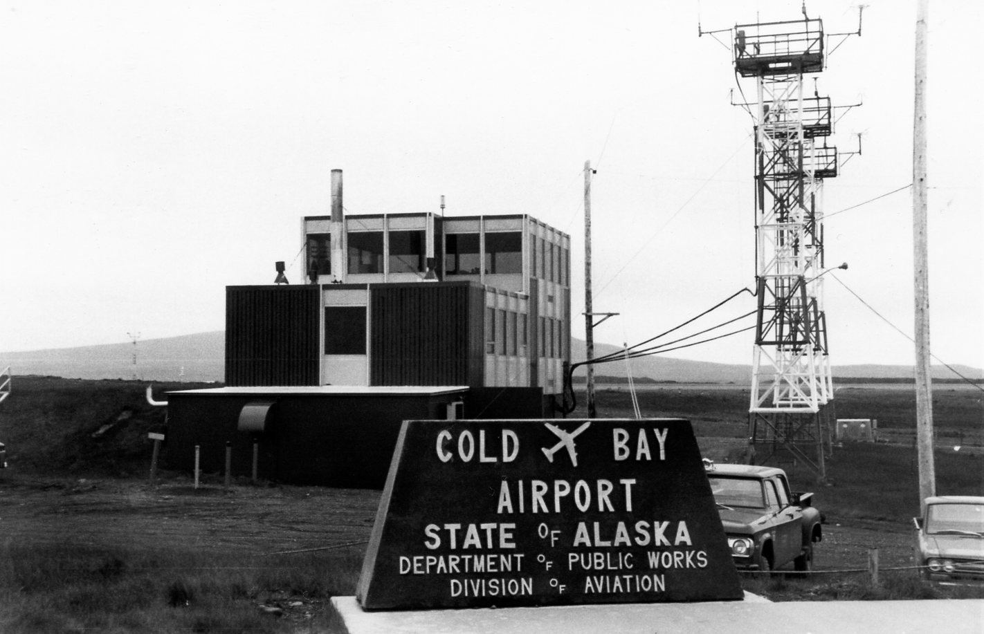 United States of America, Alaska, Cold Bay. The building with the control tower at airport in August 1972.